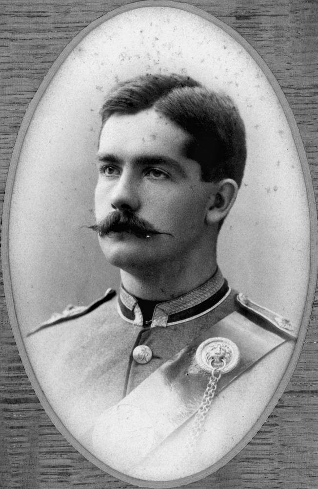 Lieut. Richard Dowse of the Queensland Volunteer Rifles 1866-1955, soldier and public servant was born on 29 June 1866 at Portsea, Hampshire. Migrated to Queensland in 1885 and in September enlisted in the Queensland Volunteer Rifles (Description supplied with photograph.).